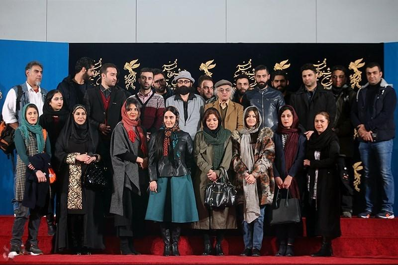 Day 4 of 35th Fajr International Film Festival at Mellat Pardis